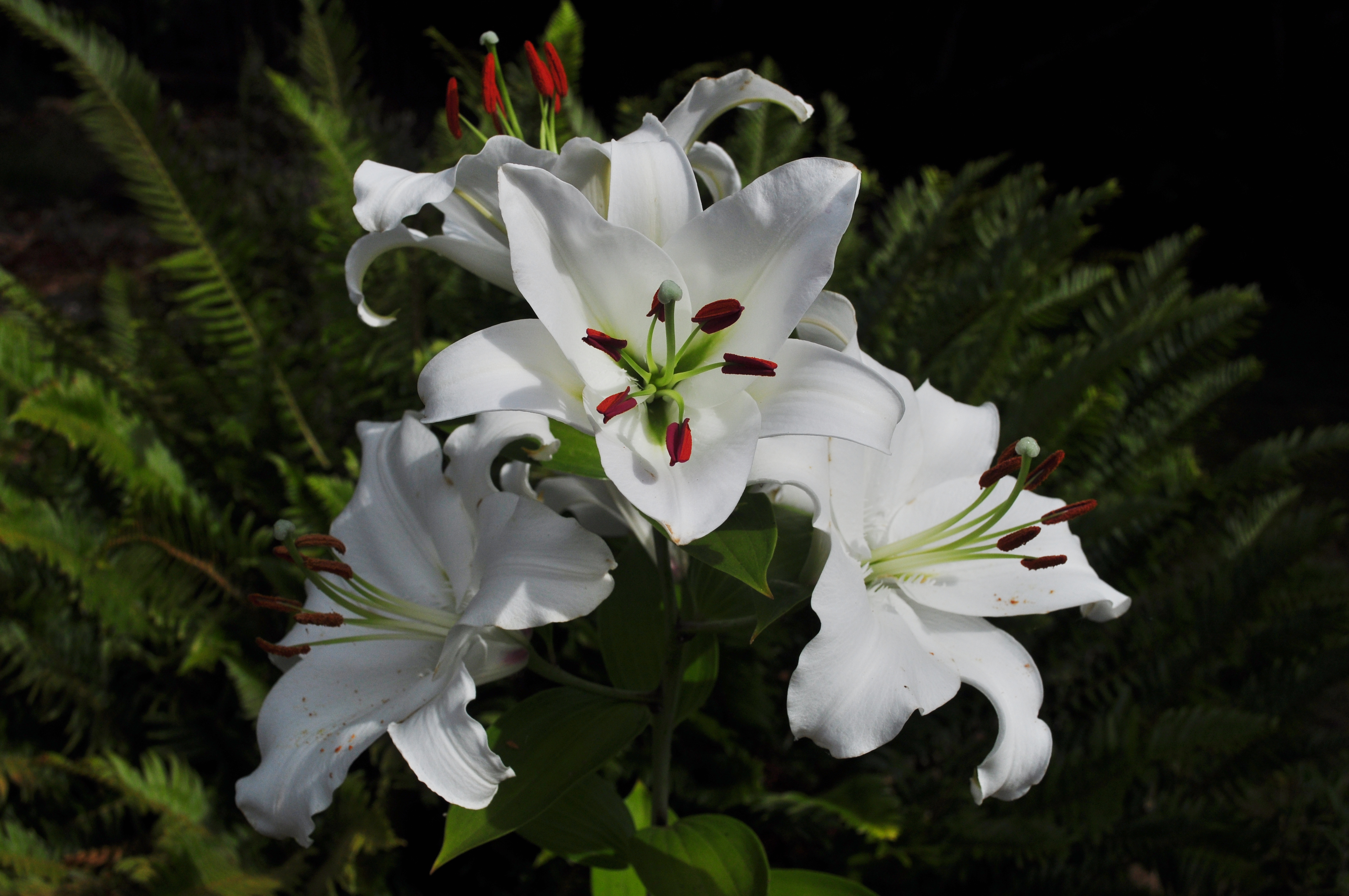 'Casa Blanca' lily; Oriental hybrid. Photographed in the Wedgwood neighborhood of Seattle, Washington, USA.